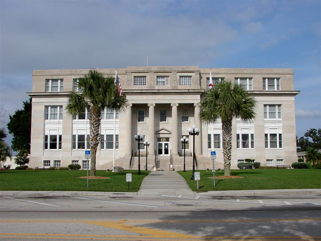 Highlands County Courthouse, Sebring, Florida. March 3, 2007.